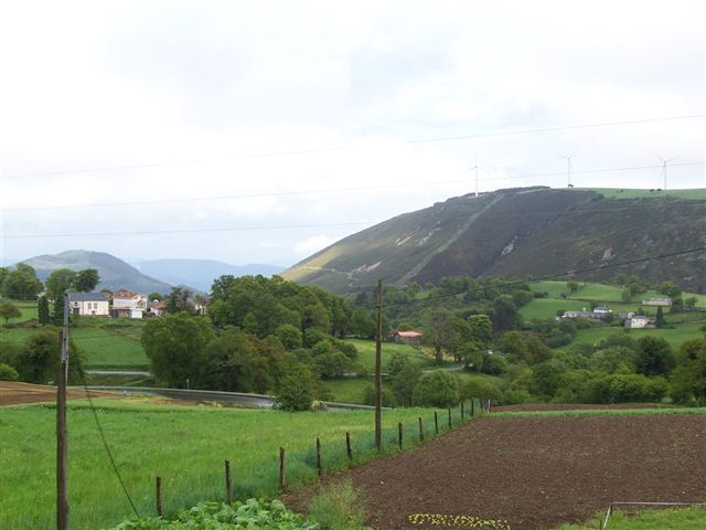 Vista desde Brañameana